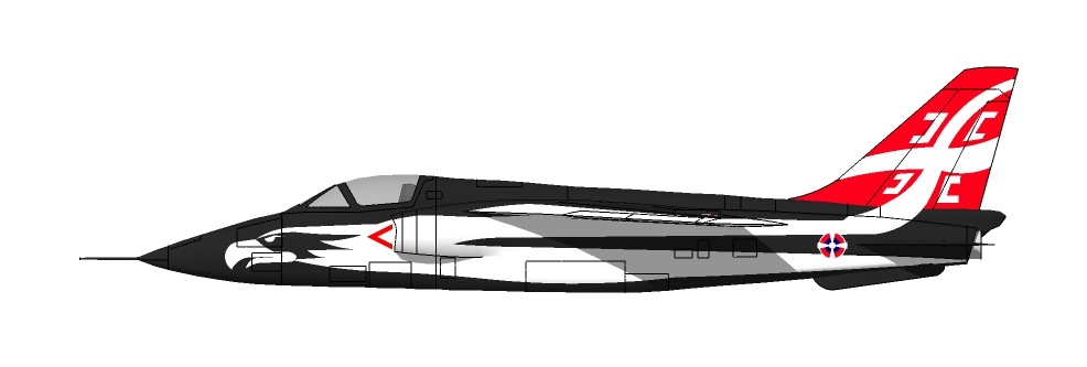 Serbian Air Force Soko J-22 Orao